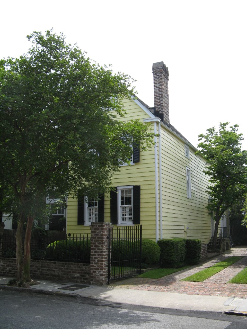 Lewis Timothy print shop at 97 King Street in Charleston, South Carolina.